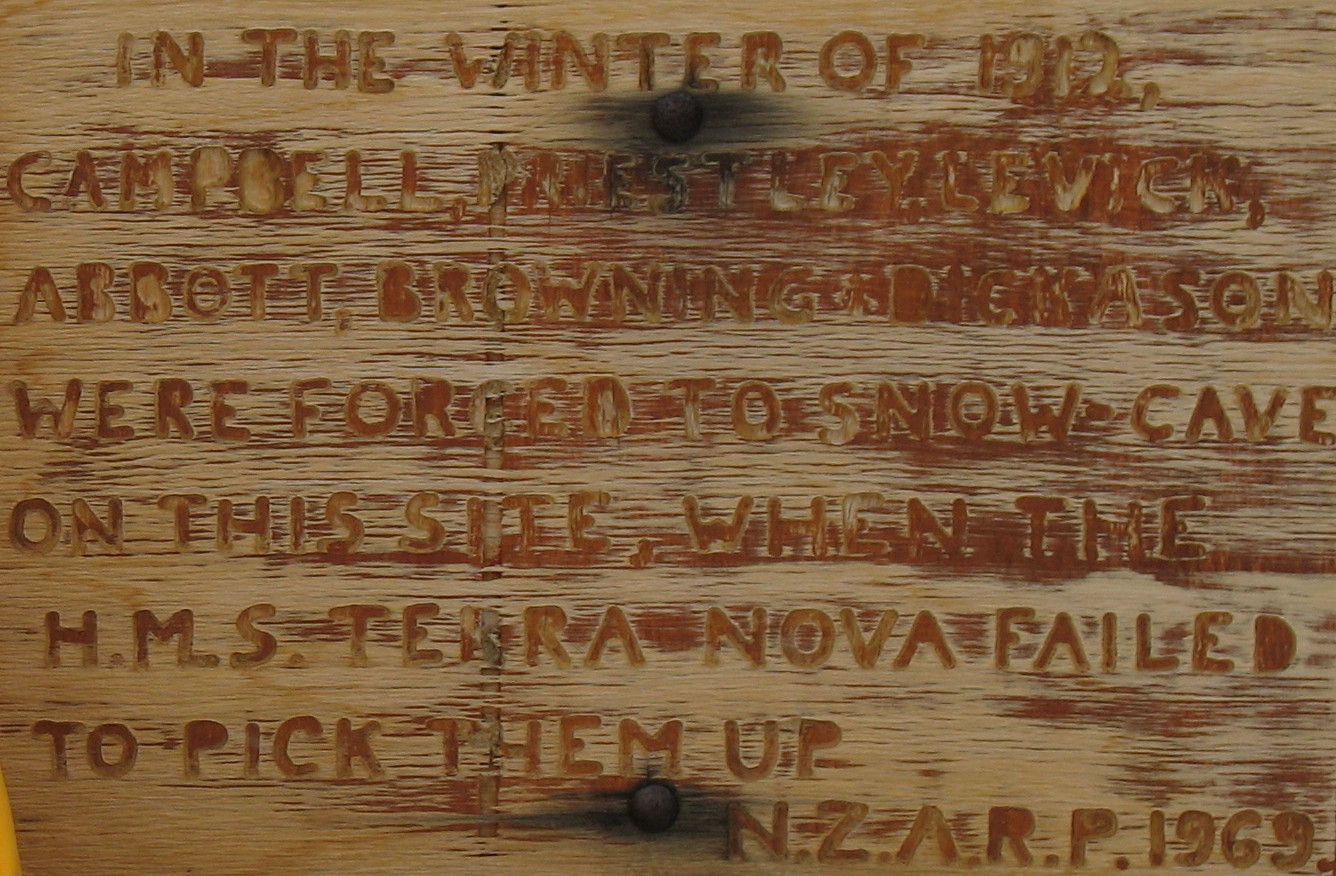 The sign marking the location of the Northern Party's ice hut on Inexpressible Island. The Northern Party was part of Robert Falcon Scott's Terra Nova expedition (1910-1913).